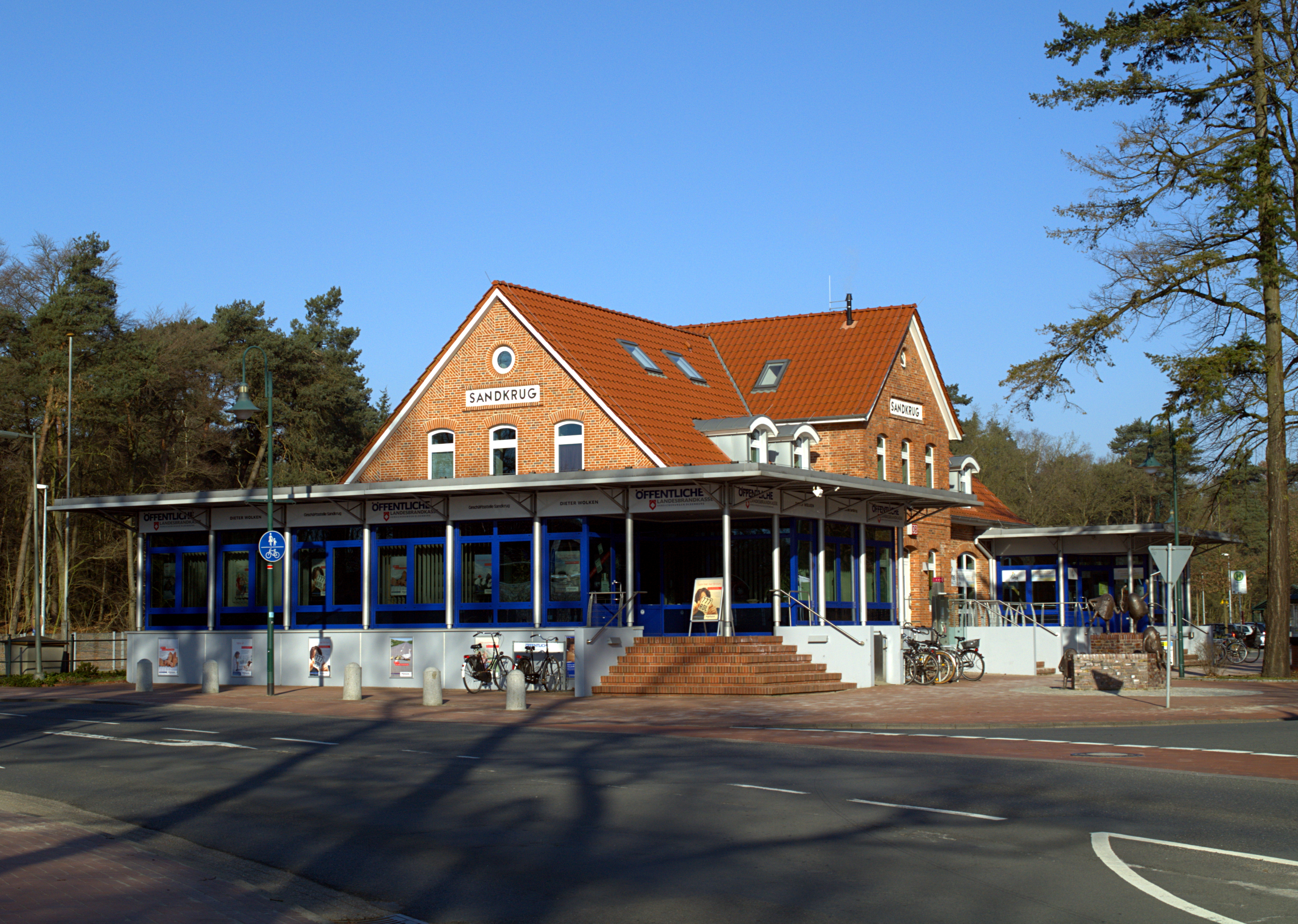 The reception building of Hatten train station, Lower Saxony, Germany.